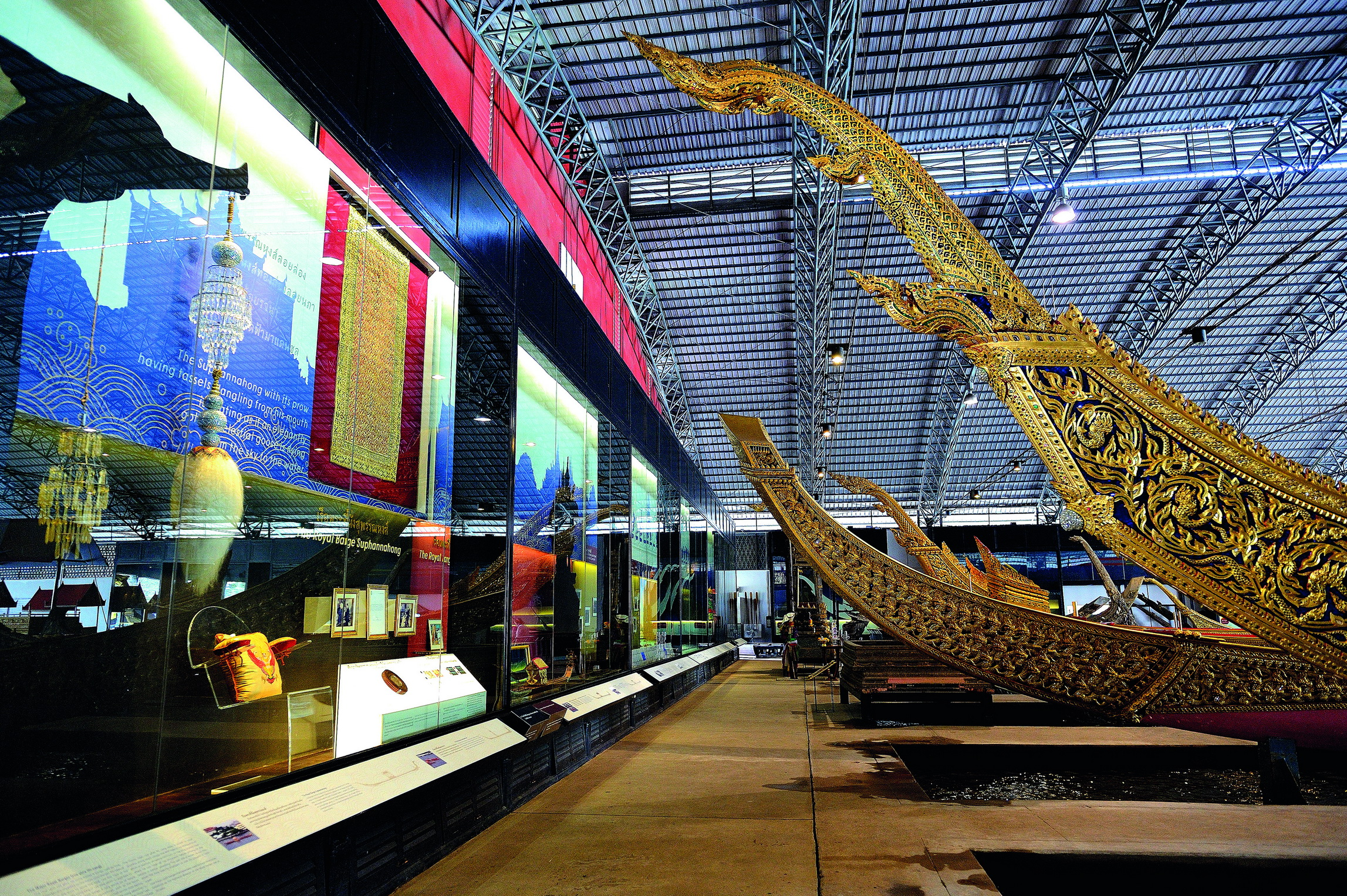 The National Museum of Royal Barges is located at 80/1 on a on a bank of Bangkok Noi canal in Siriraj subdistrict, Bangkok Noi district. It was originally a dock to store royal barges. In 1947, the Bureau of the Royal Household and the Royal Thai Navy commissioned the Department of Fine Arts to repair royal barges and others used in royal barge procession, most of which were and have been significant to historic events and arts. In 1974, the department registered as National heritage, and upgraded the dock to “The National Museum of Royal Barges”. The barges on display are divided into 2 categories, being: 4 royal barges - the Royal Barge Suphannahong, the Royal Barge Narai Song Suban HM King Rama IX, (the king’s personal barge), the Royal Barge Anantanakkharat and The Royal Barge Anekkachatphuchong, and 4 escort barges - Ekachai Hern How Barge, Krut Hern Het Barge, Krabi Prap Mueang Man Barge, and Asura Vayuphak Barge. The exhibition also displays histories of the barges used in procession, and images of royal barge procession, presenting in a chronicle period from Ayutthaya to Rattanakosin.